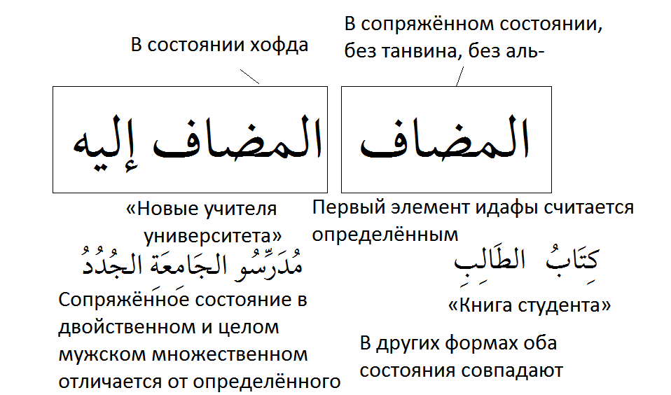 The Idˤāfah in Arabic